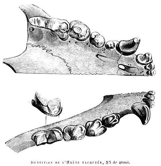 Dentition of a spotted hyena